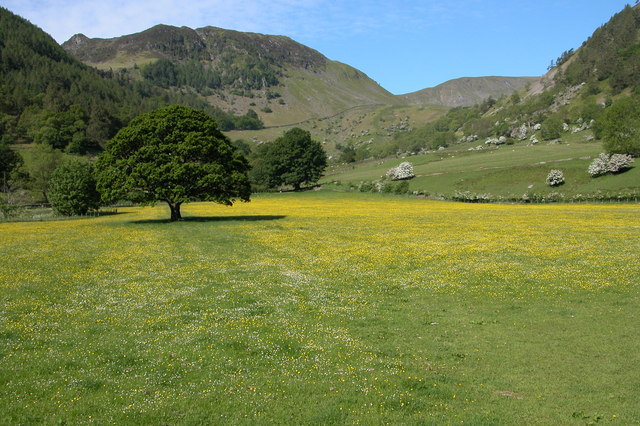 Sheffield Pike and Glencoyne. Sheffield Pike, Glencoyne and Glencoyne Head viewed across a field of dandelions near Glencoyne Bridge.